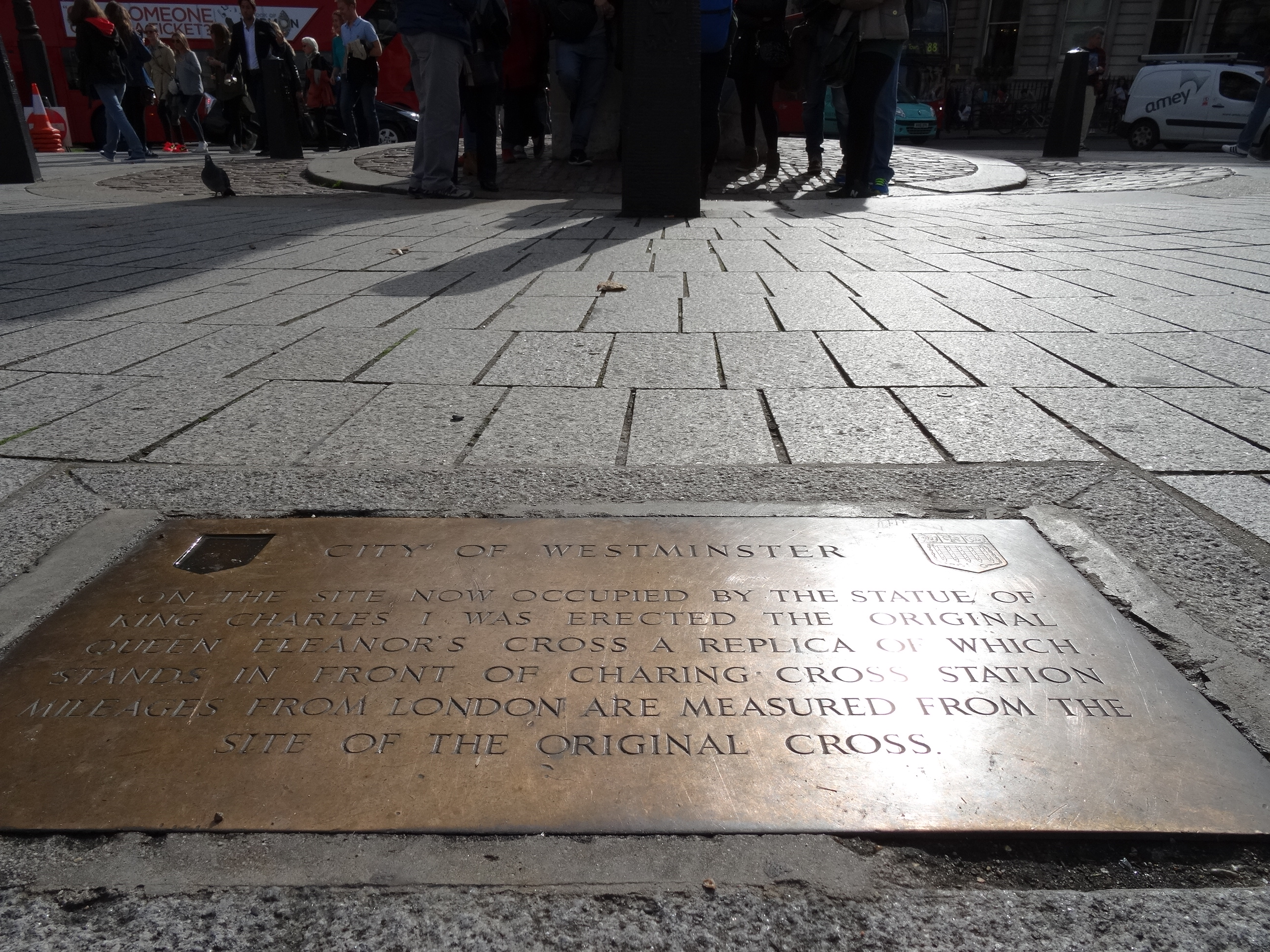 Shows the point at which map distances are measured in GB